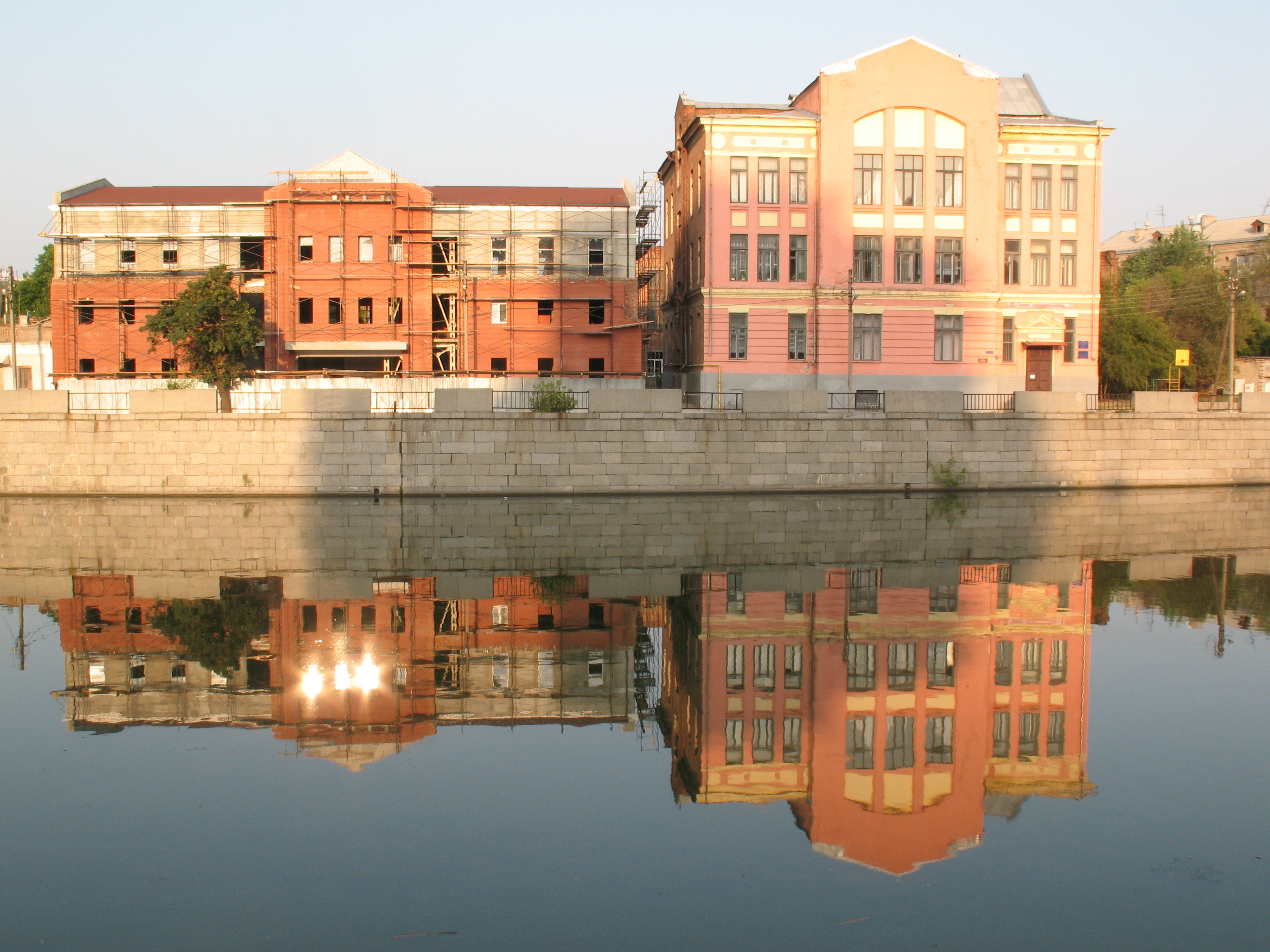 Kharkov embankment 5, 6 (left).